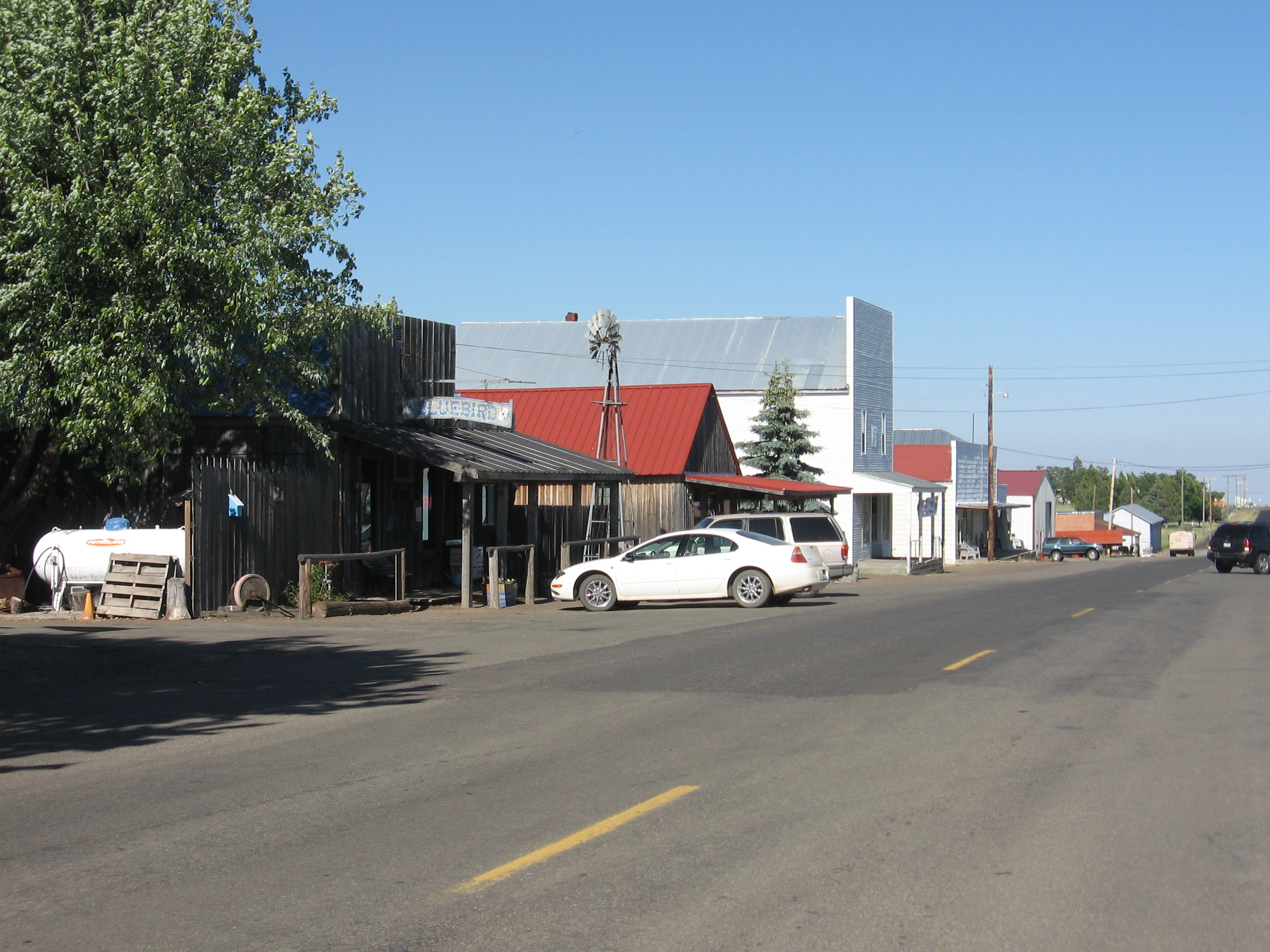 The Bluebird Tavern and the town of Bickleton, Washington.